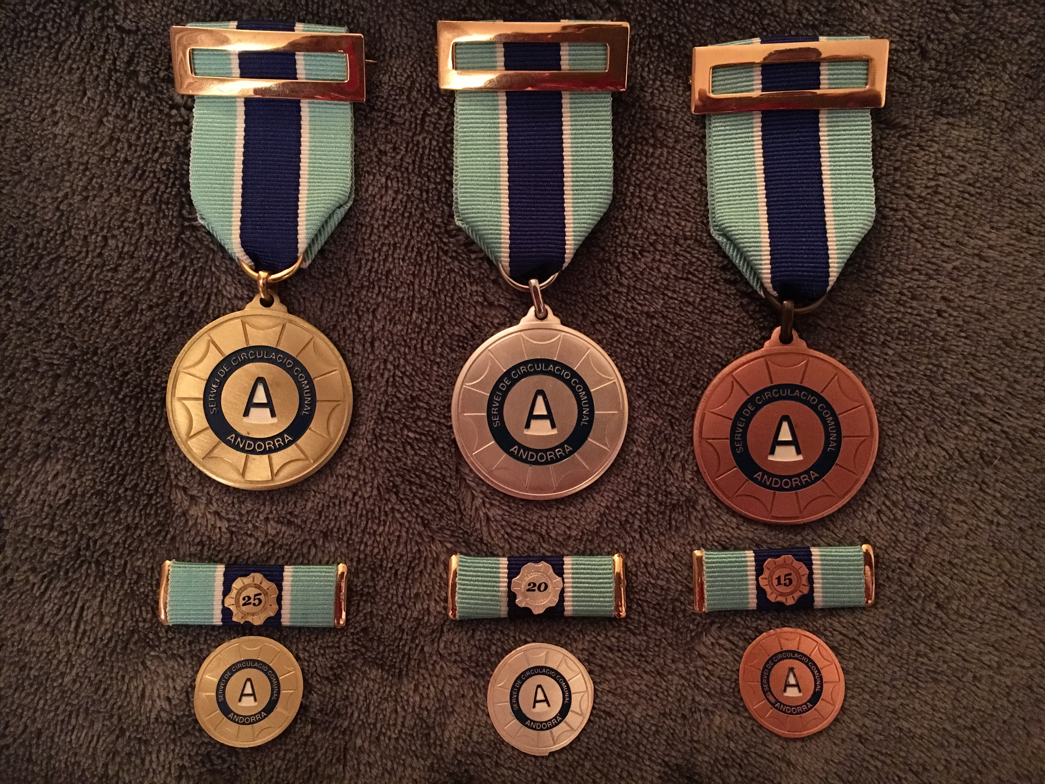 Medals for 25, 20 and 15 years of Service of the Traffic Guards of Andorra